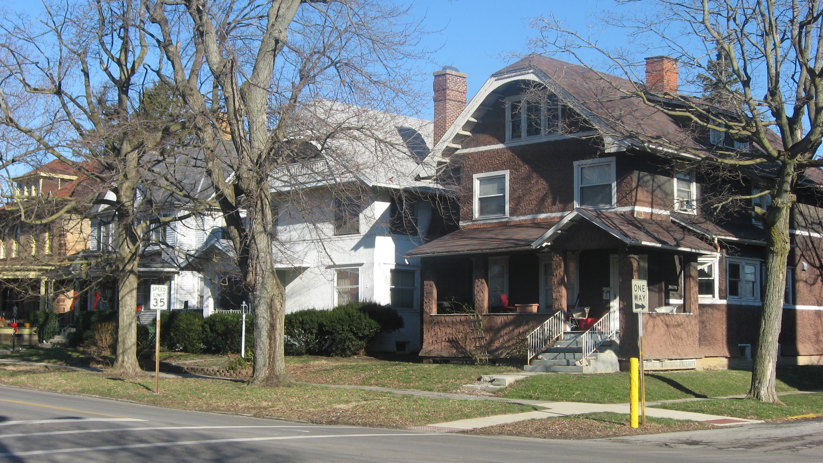 Houses on the eastern side of the 300 block of N. Main Street (State Route 53) in Kenton, Ohio, United States. This block is part of the North Main-North Detroit Street Historic District, a historic district that is listed on the National Register of Historic Places.